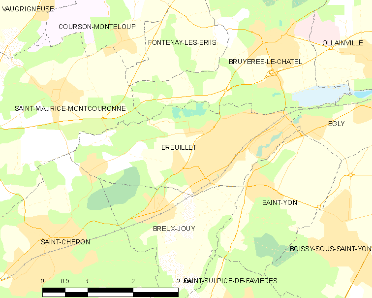 Map of French municipality Breuillet